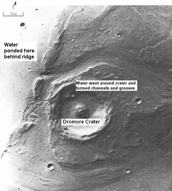 Detail of water flow around Dromore crater within the ouflow channel Maja Valles, as seen by Viking. Location is 20N and 49 W.